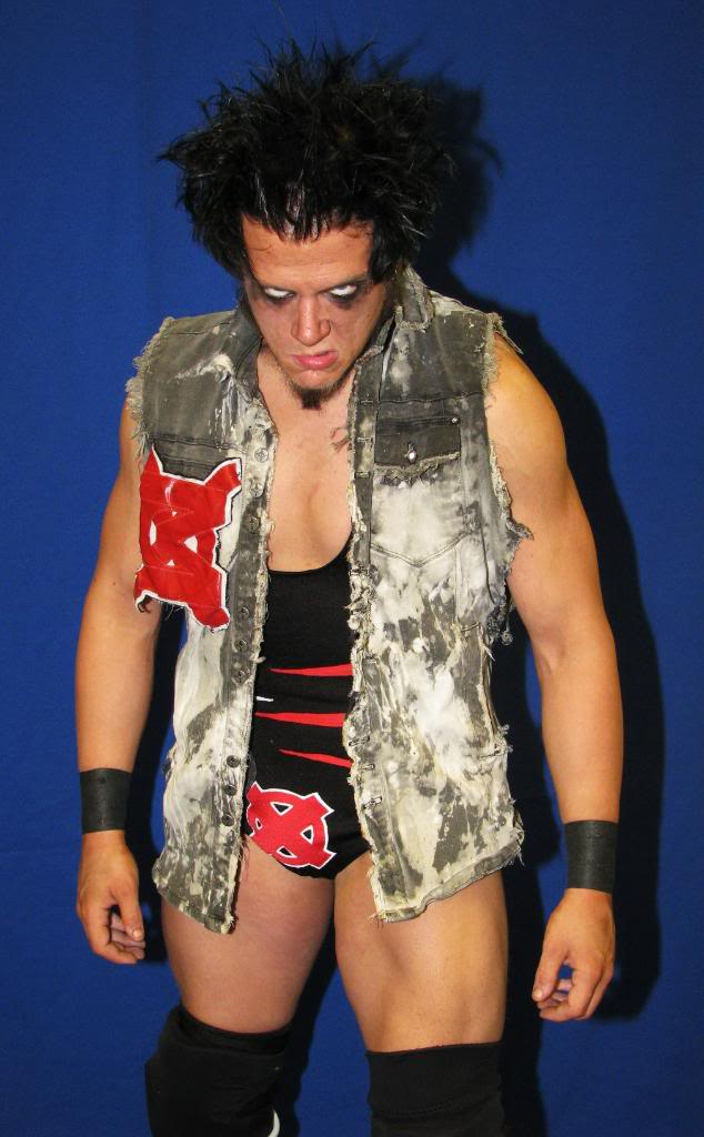 Promo photo of Sami Callihan taken at a JAPW show in 2010